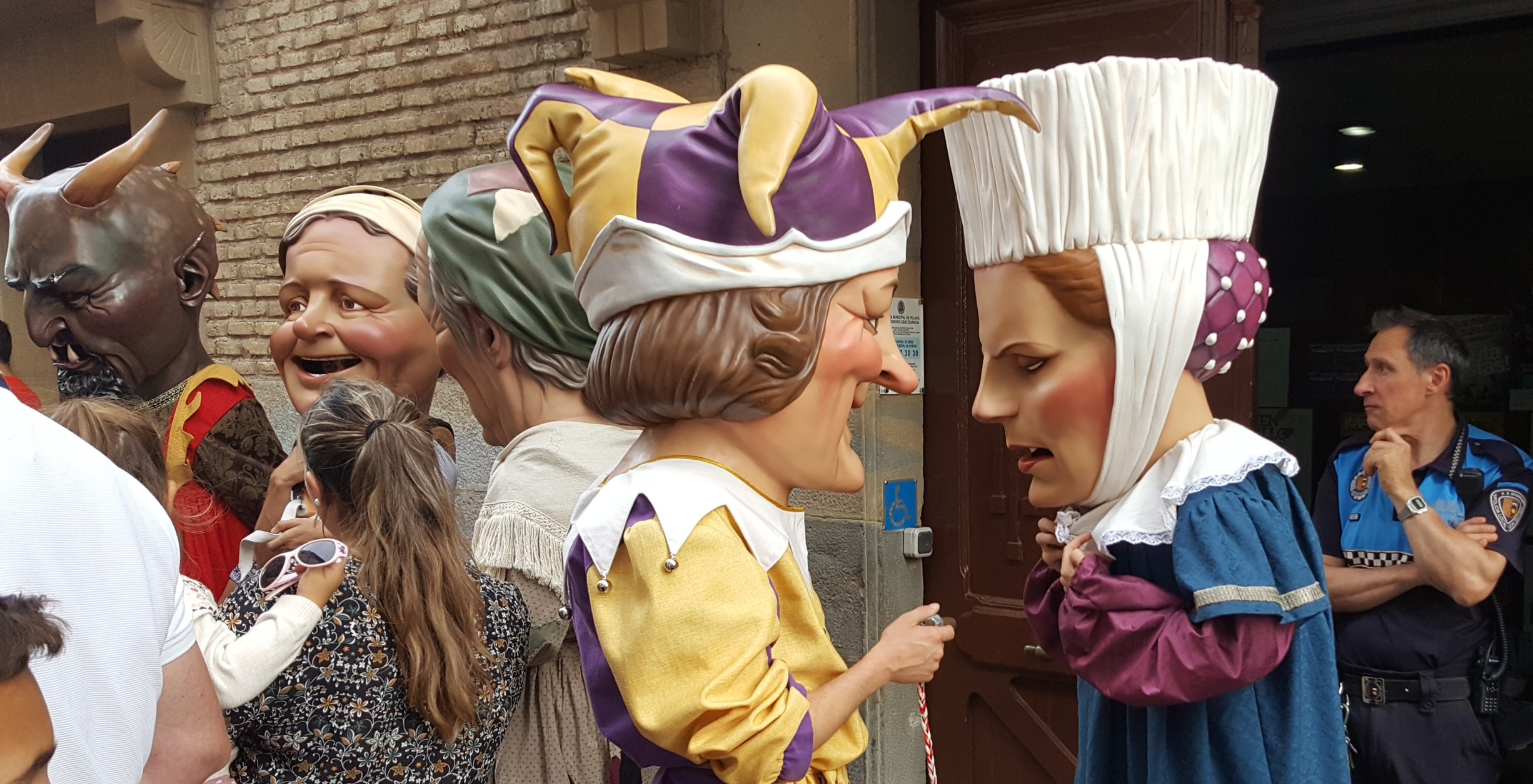 Giant figures dancing in the streets on holidays of Atarrabia in Navarre